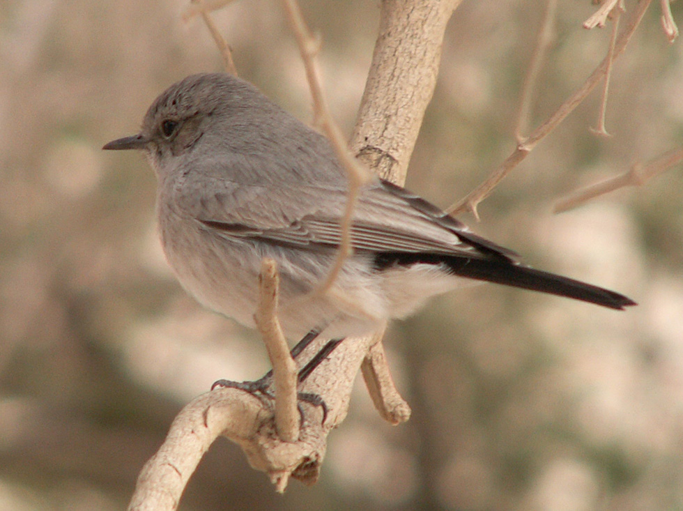 Blackstart, Cercomela melanura. Photo by Ofer Faigon. Taken in Ein Gedi, Israel, 4-Jan-2006.